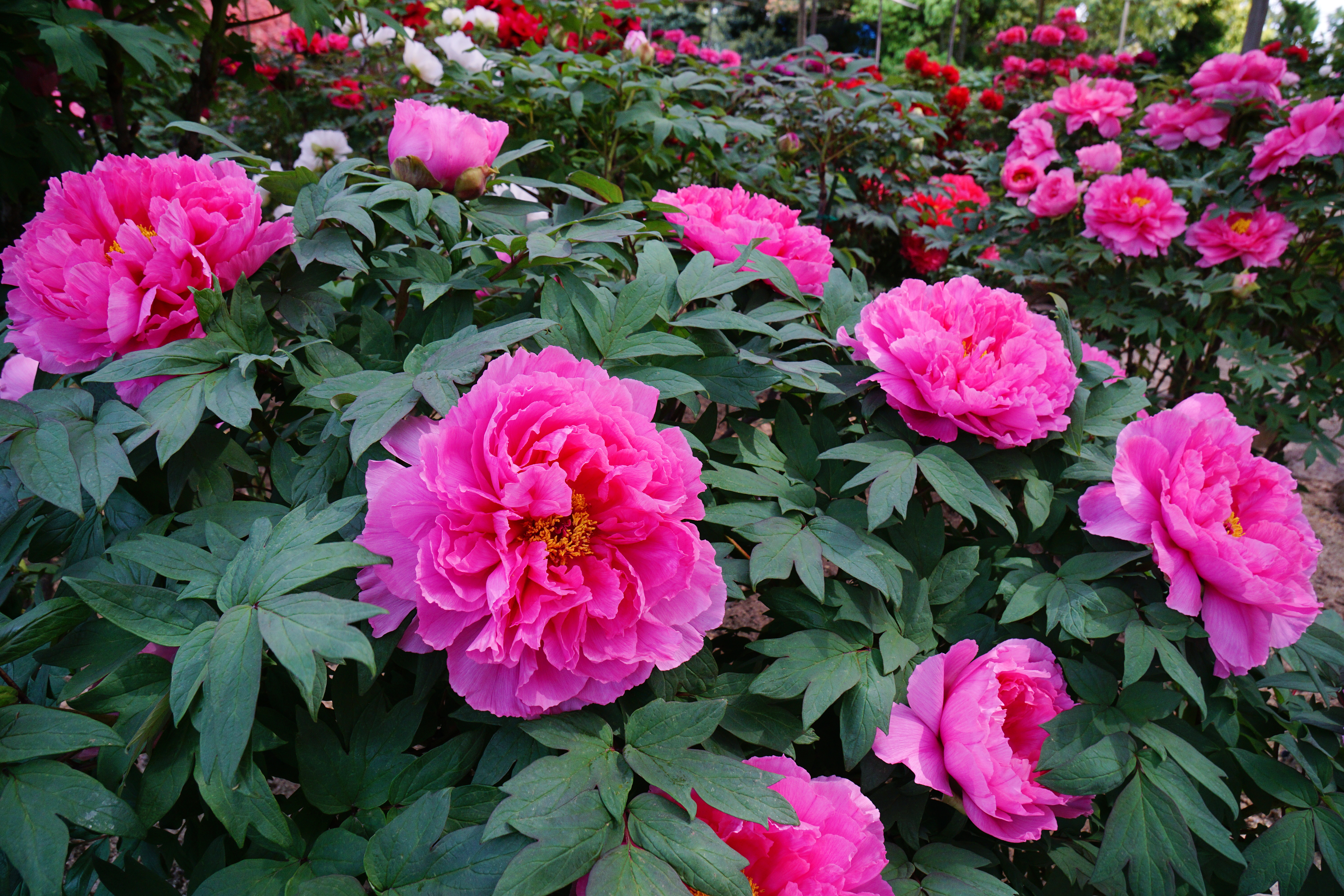 Yuushien in Matsue, Shimane prefecture, Japan.